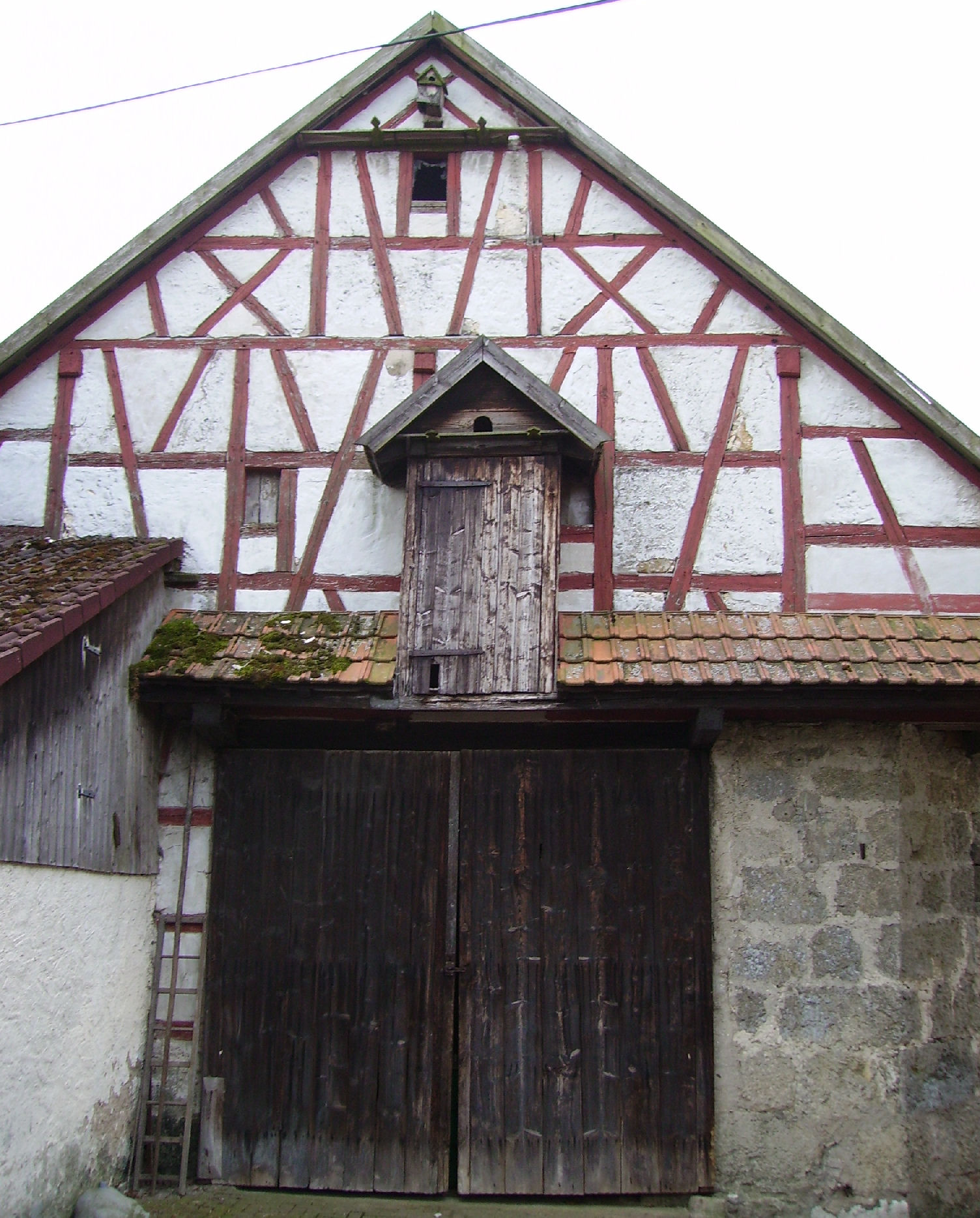 village of Marktgemeinde Heiligenstadt near Bamberg (Upper Franconia) in Germany